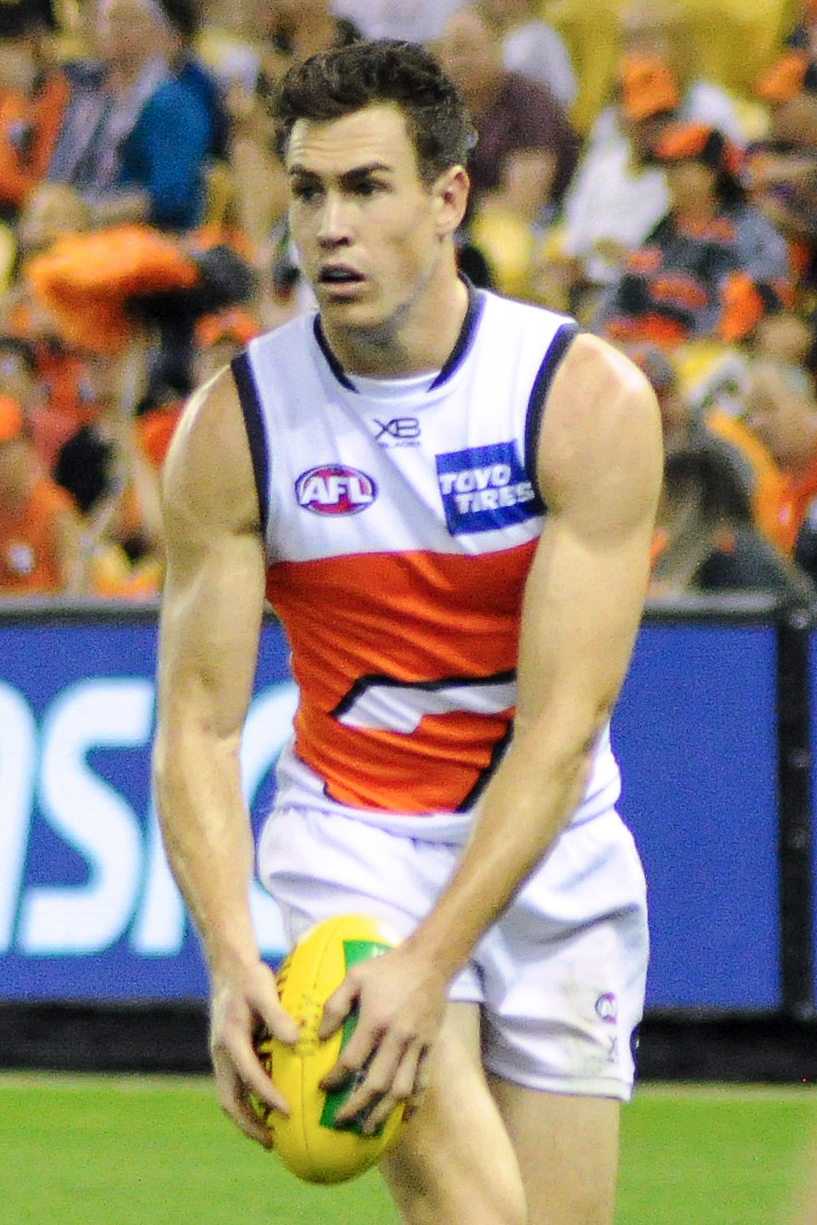 Jeremy Cameron during the AFL round five match between St Kilda and Greater Western Sydney on 21 April 2018 at Etihad Stadium in Melbourne, Victoria.